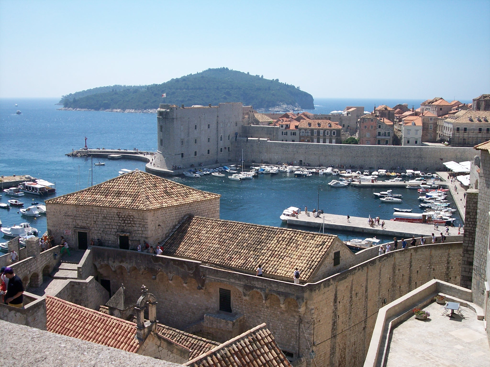 View on Dubrovnik (Croatia)